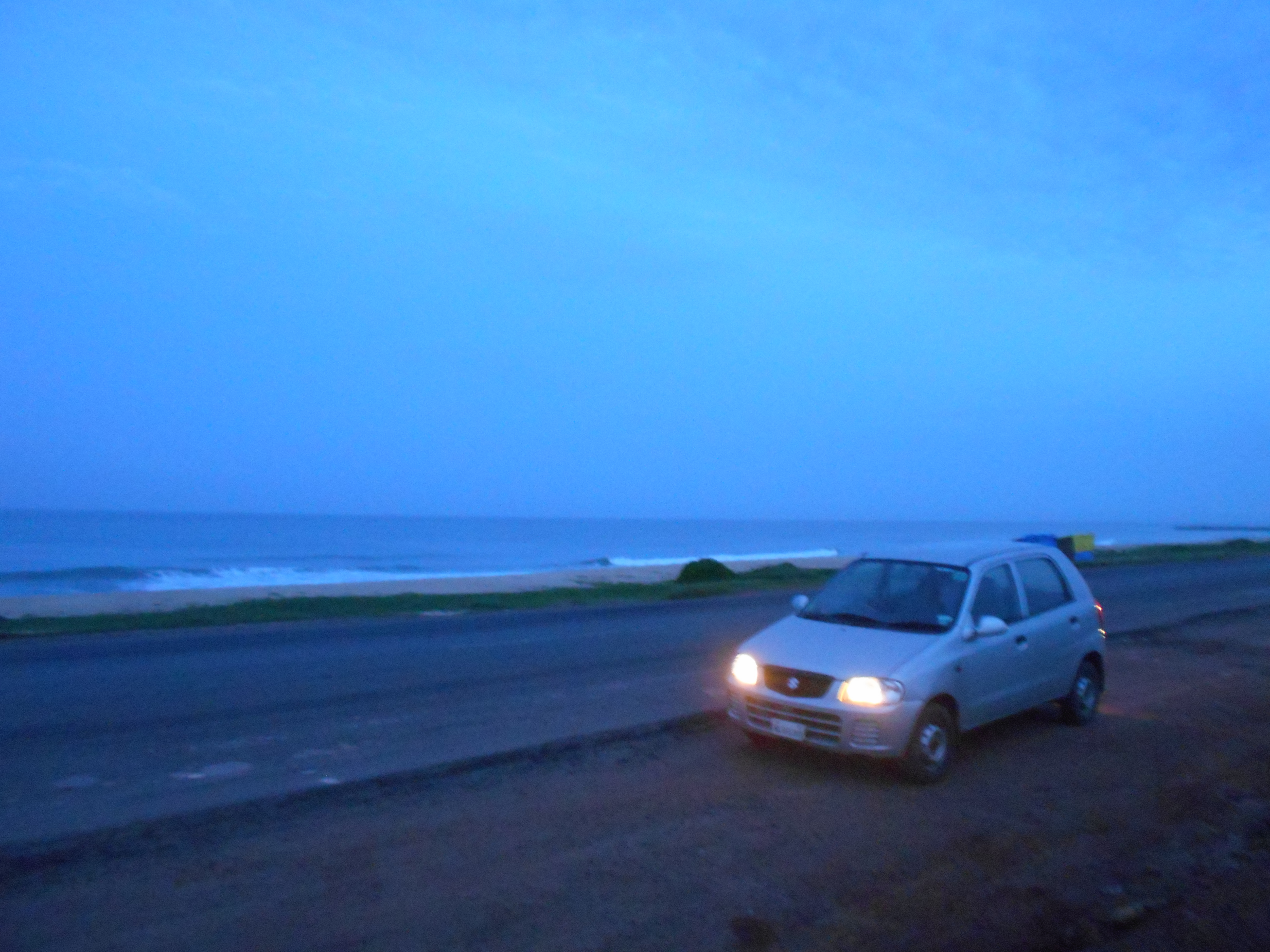 Maravanthe is a favorite stopover for vehicles playing through NH 66